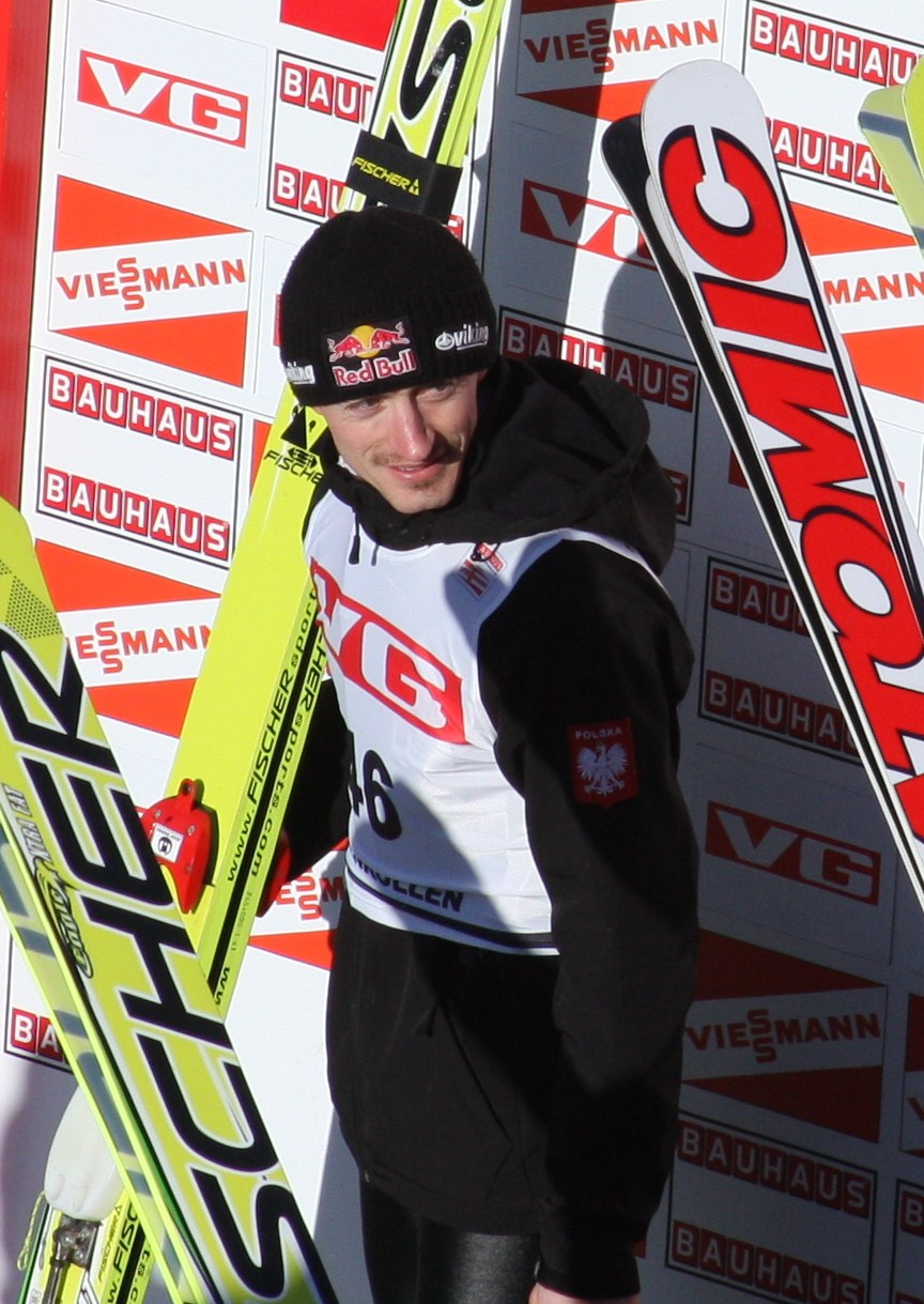 Adam Malysz at WC tournament in Holmenkollen, Oslo 2010